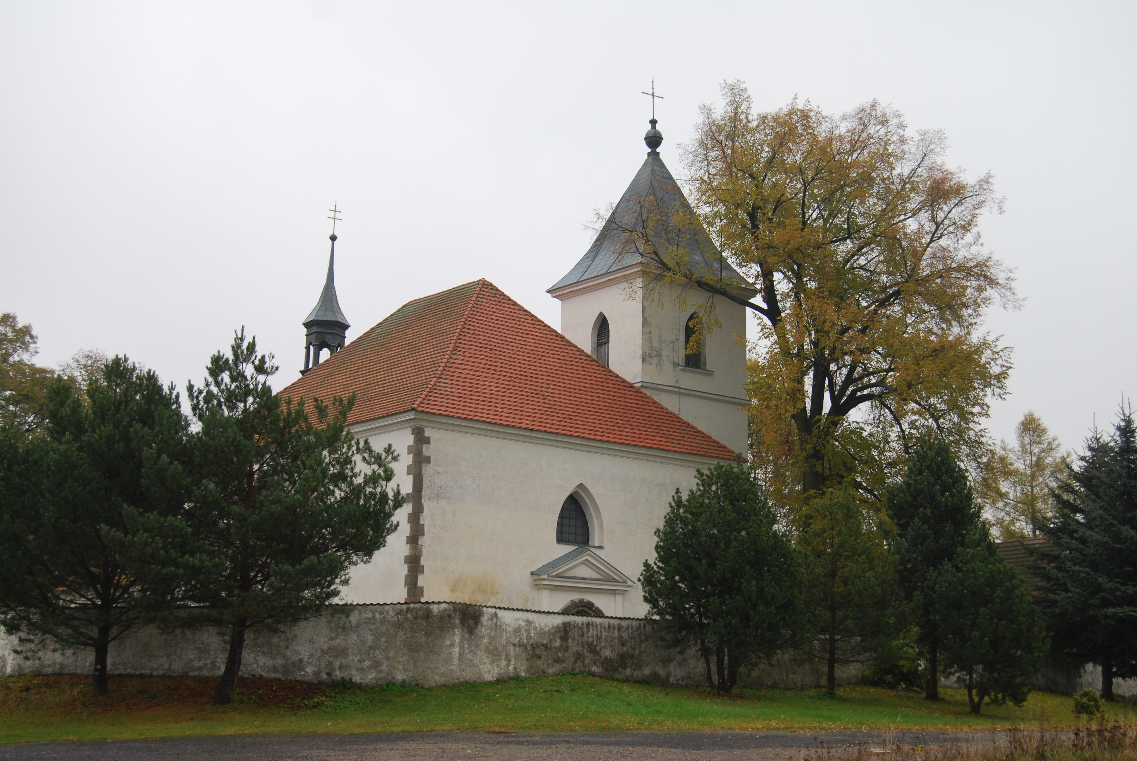 Church in Hodušín village, part of Opařany village in Tábor District, Czech Republic